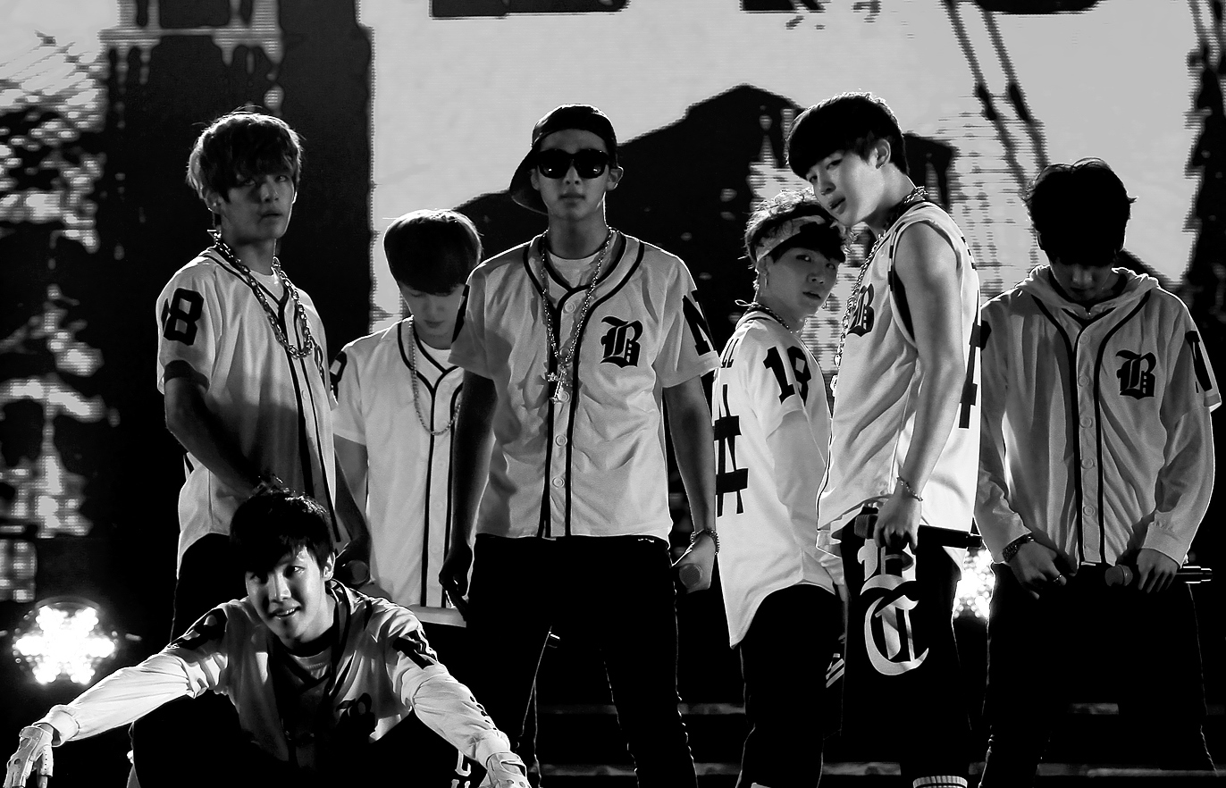 Bangtan Boys at the Incheon Music Center in September 14, 2013.